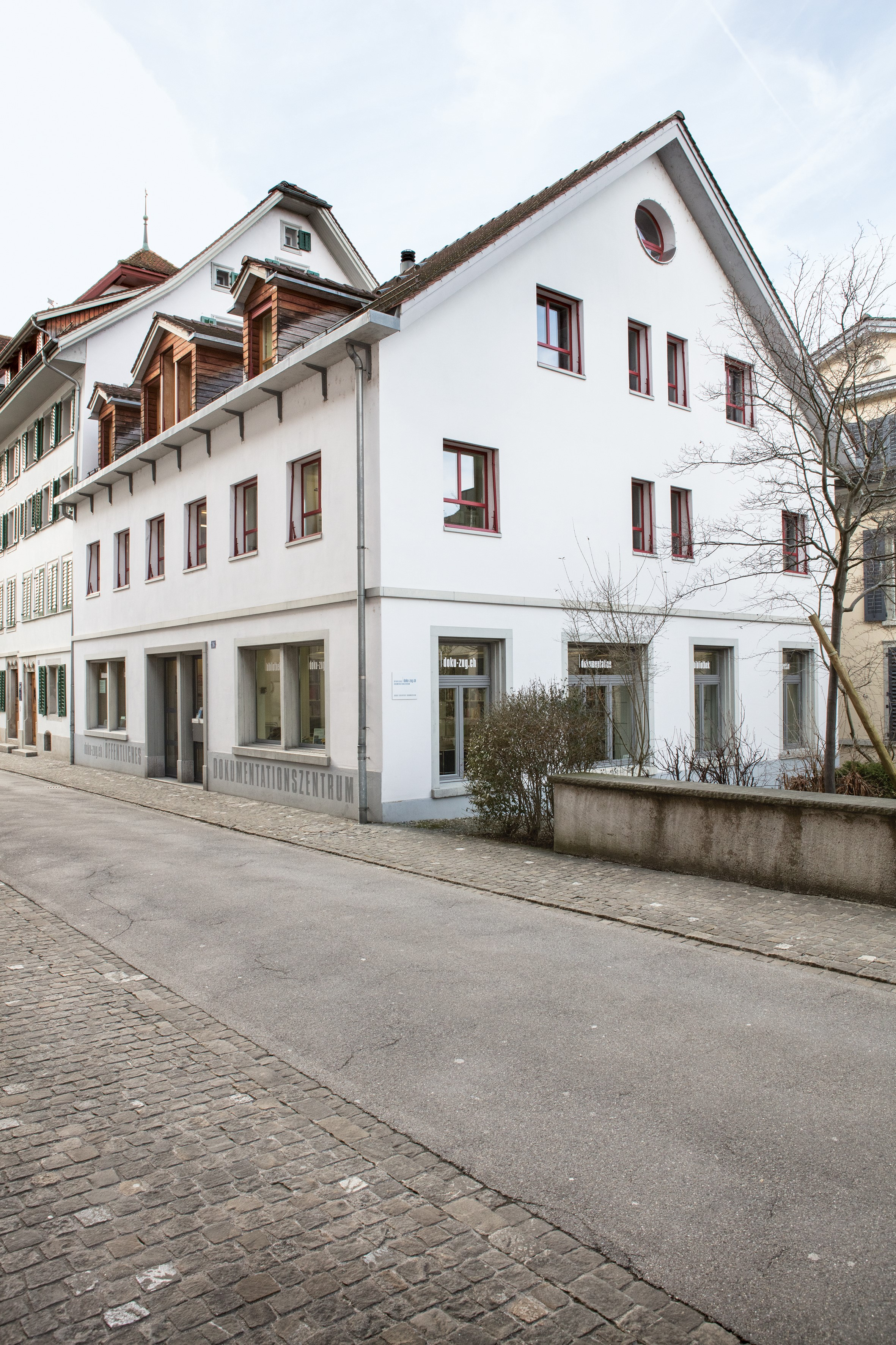 doku-zug.ch exterior